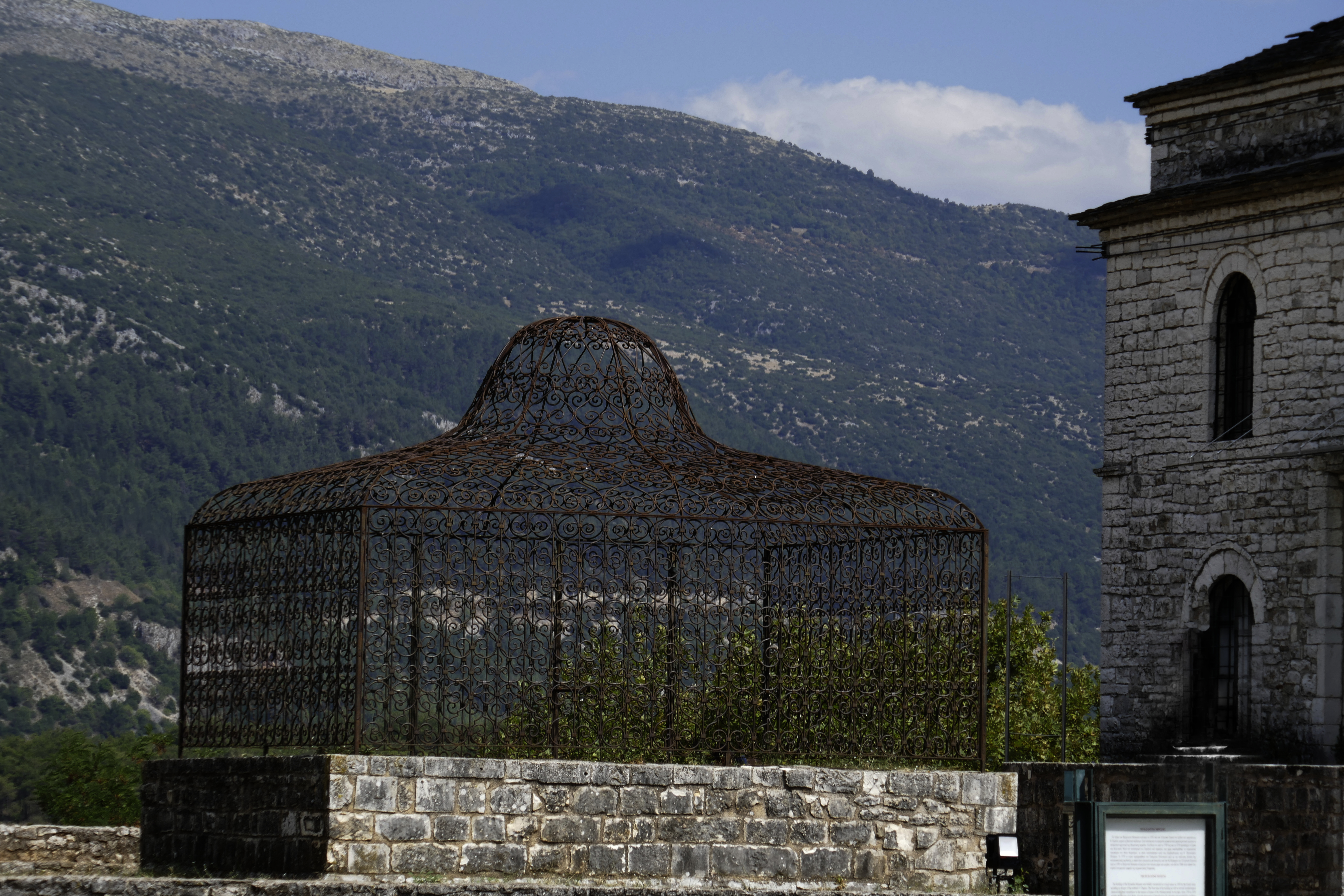 Part of the Ethnic museum of Ioannina